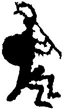 An image of Kokopelli displaying his phallus, from